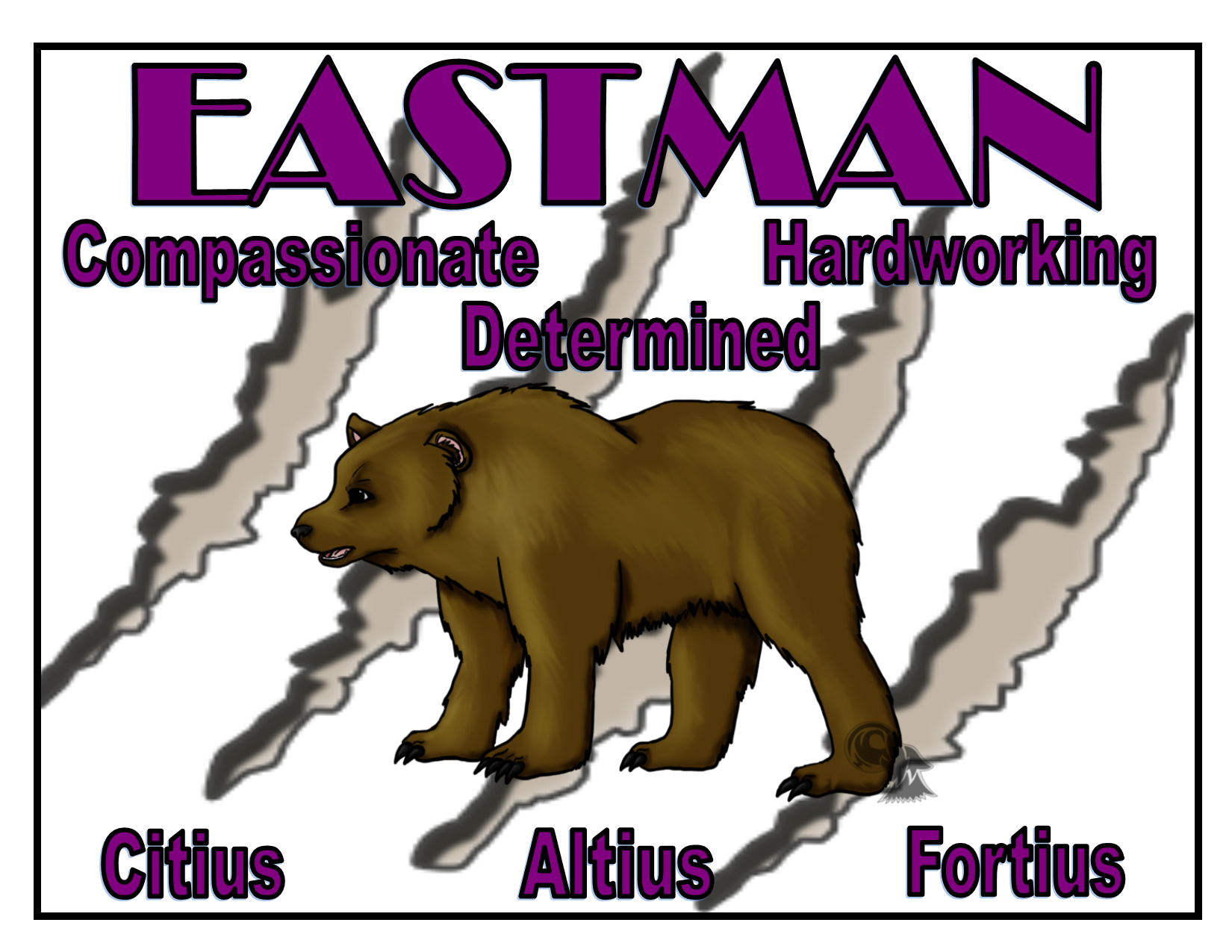 Eastman house